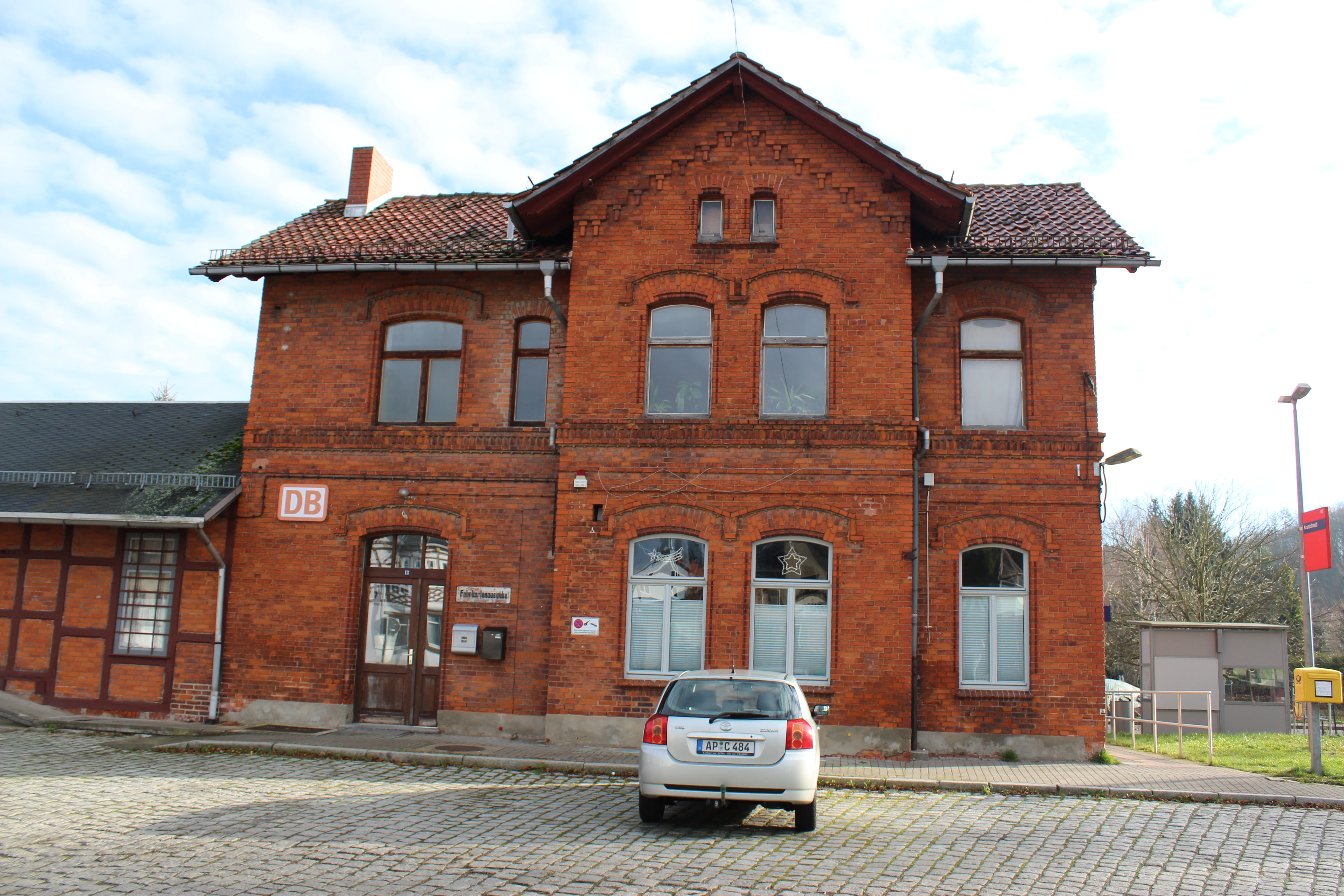 train station Kranichfeld, station building street side